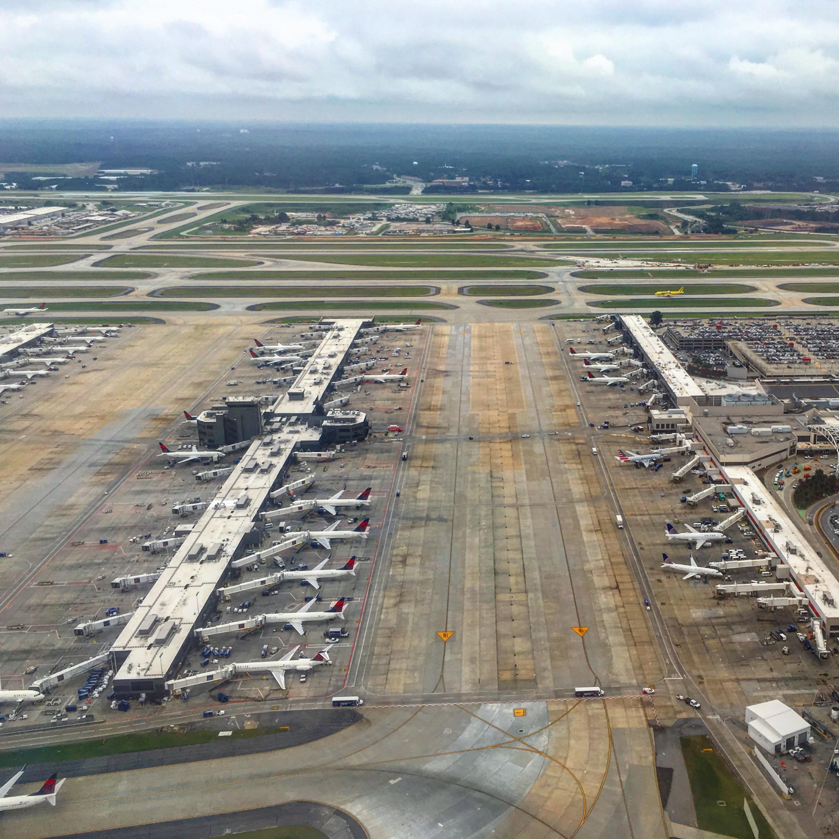 View of ATL concourses T and A from the air.